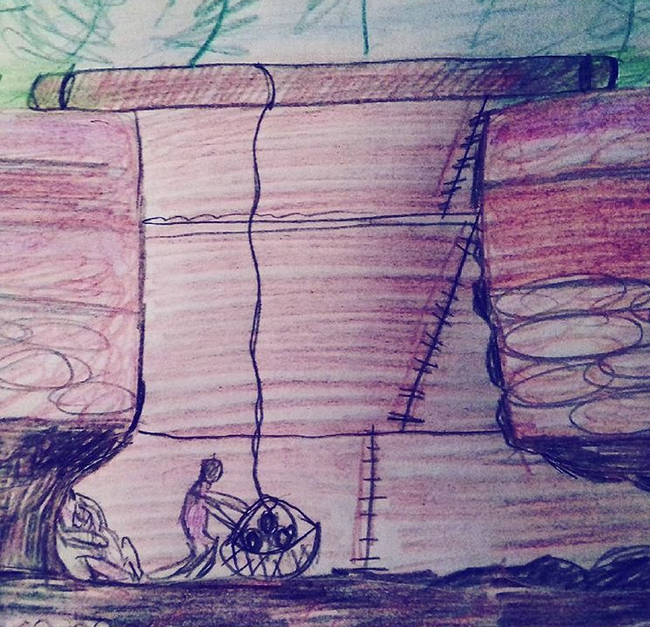 This is my own illustration. It is based on information I found about flint mining in Jutland, Denmark, in Stone Age and in later ages, in the website which is an academic project to project valid info on related to local history (to this area of Denmark). In the above website it is mentioned and illustrated that The Flint mines at Hov were discovered by chance in the summer of 1957 by Professor C. J. Becher of the National Museum, who held a holiday in the area. At the edge of a modern chalk pit he saw the traces of a stone mine from the Stone Age. The professor immediately interrupted his vacation and began excavation. When the studies were completed in 1965, 50 mines were located, which spread over an area of ​​approx. 200 x 80 meters.The mines are from the Pentecost Age and over 5000 years old. The best preserved shaft was about 7 meters deep and measured at the surface 4.5 meters in diameter. From the bottom of the shaft were 4 low sideways - stoller - which was up to 5 meters long. Some of them had connection to other mining powers and thus formed a whole network of underground corridors.In the centuries after the mining operation at Hov had ceased, the shafts were slowly filled up. After the excavations in the 1960s, it was possible for a number of years to come down to one of the shafts.